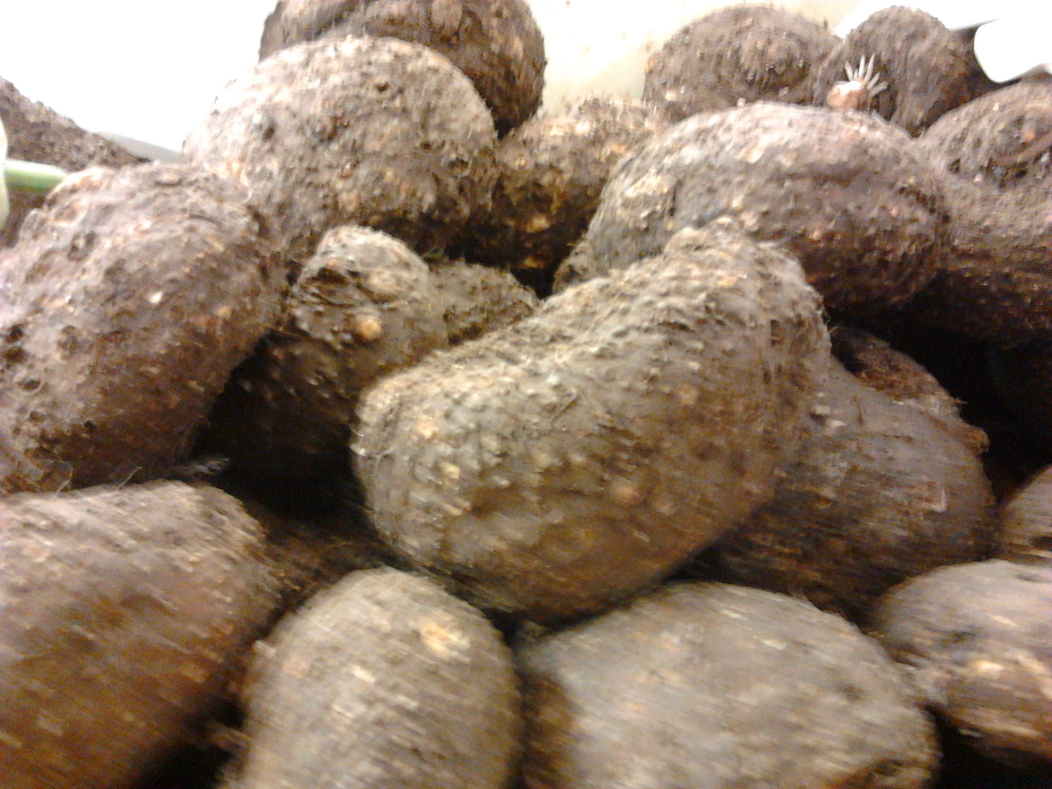 Photoed using Samsung Wave 525.